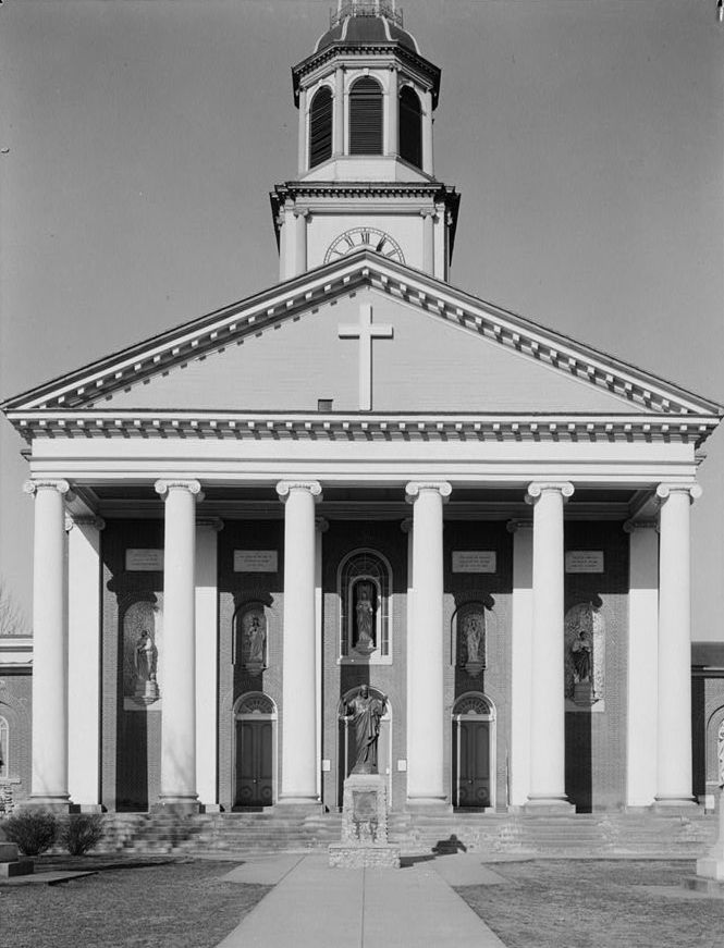 Basilica of Saint Joseph Proto-Cathedral in Bardstown, Kentucky. Approximate lat/long: 37°48′39″N 85°28′20″W / 37.81083°N 85.47222°W Front elevation (south). Image cropt to remove border.